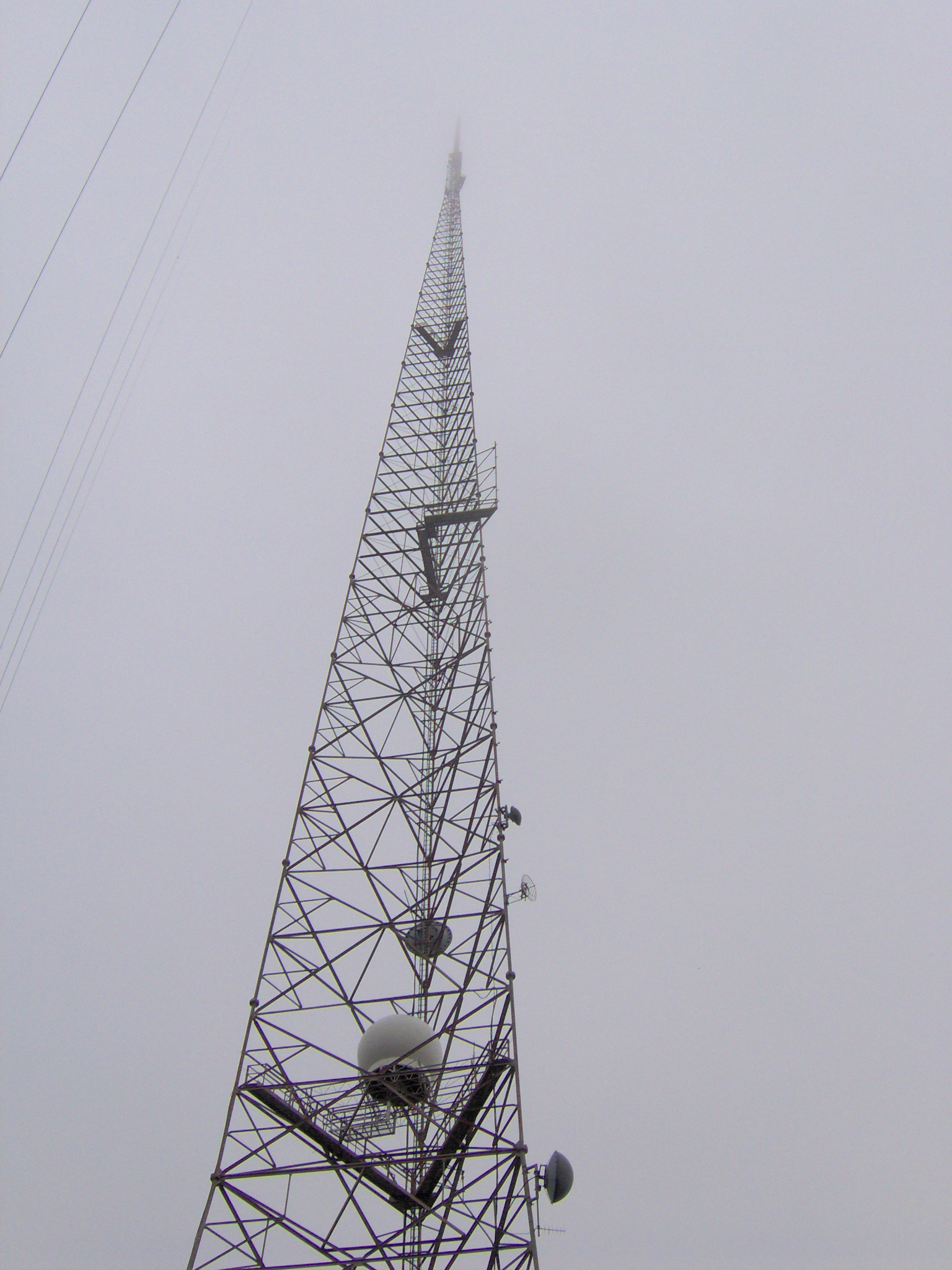 Radio tower at the WBIR station atop Sharp's Ridge in the U.S. city of Knoxville, Tennessee.